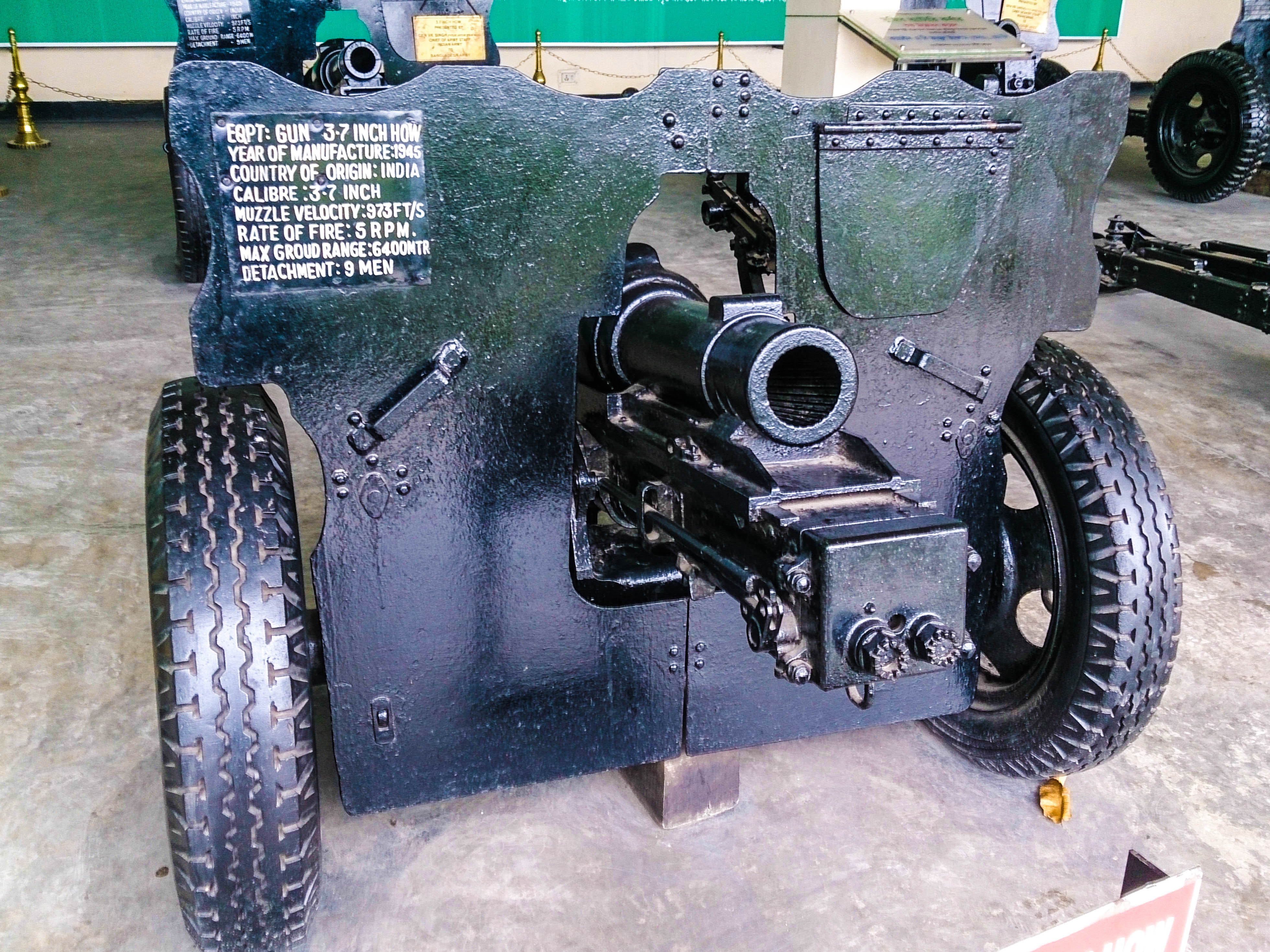 Photograph of Indian QF 3.7-inch mountain howitzer, at Bangladesh Military Museum, Dhaka. Guns used by "Mujib Battery" in 1971 Bangladesh liberation war.